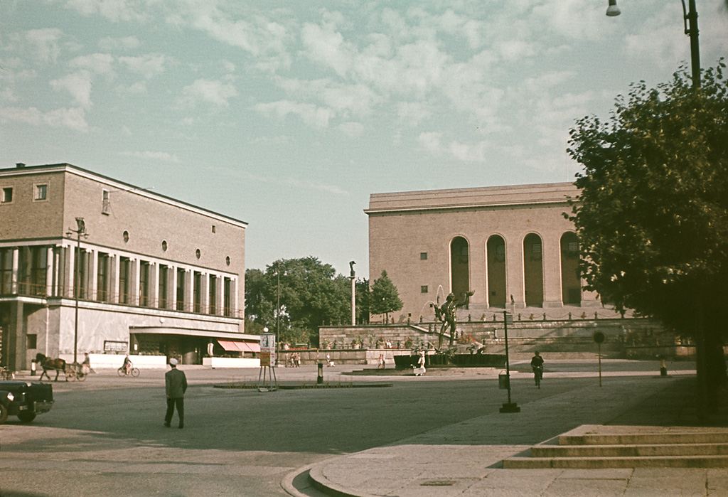 Götaplatsen square in Gothenburg. To the left is Gothenburg City Theatre, to the right is Gothenburg Museum of Art. Götaplatsen i Göteborg. Till vänster Göteborgs stadsteater, till höger Göteborgs konstmuseum. Parish (socken): Göteborg Province (landskap): Västergötland Municipality (kommun): Göteborg County (län): Västra Götaland Photograph by: Fredrik Bruno Date: 1944 Format: Colour slide See a recent photo of the same view: Persistent URL: Read more about the photo database (in english)